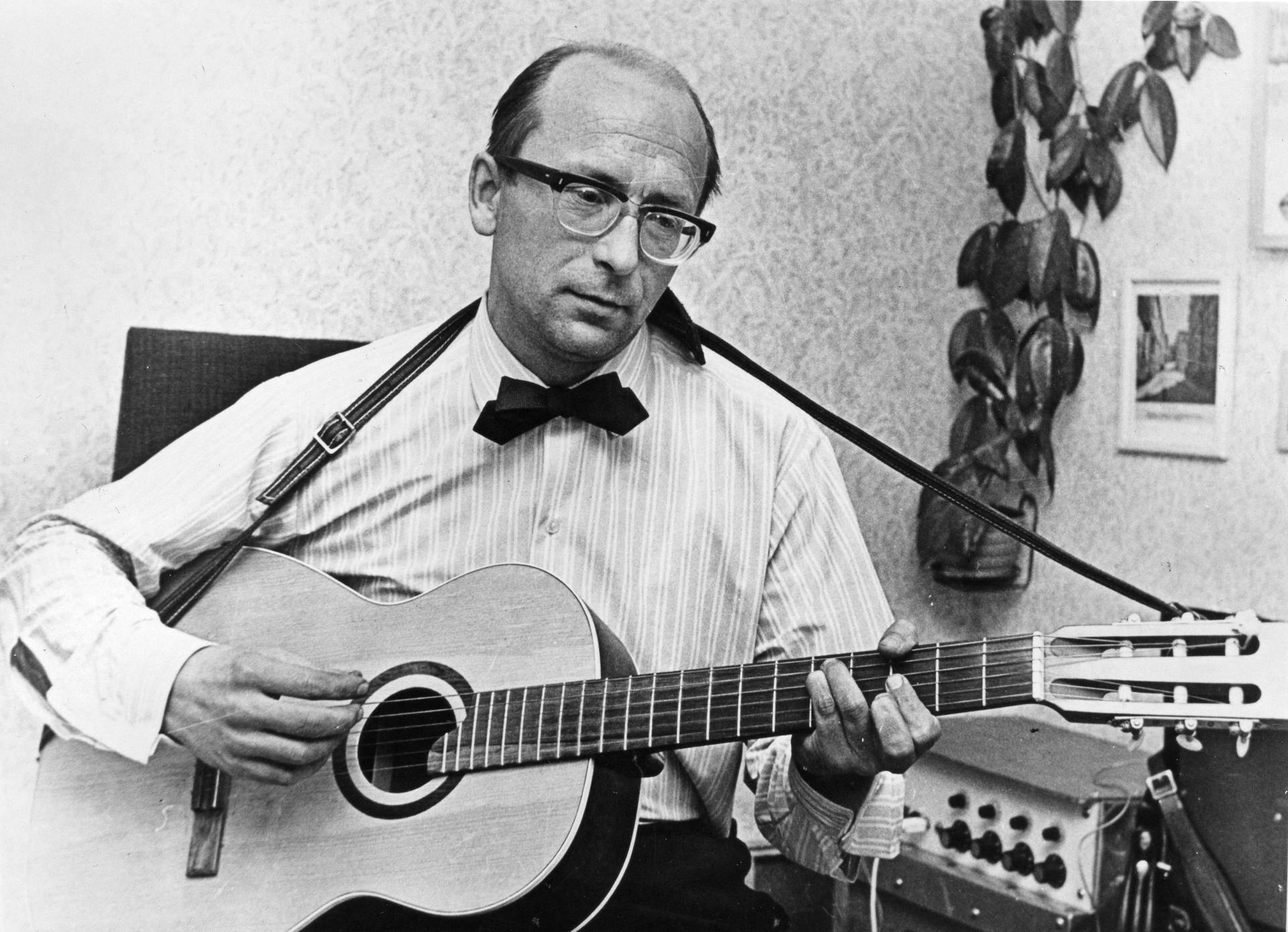 Photograph of the Finnish composer and lyricist Unto Mononen (1930–1968).